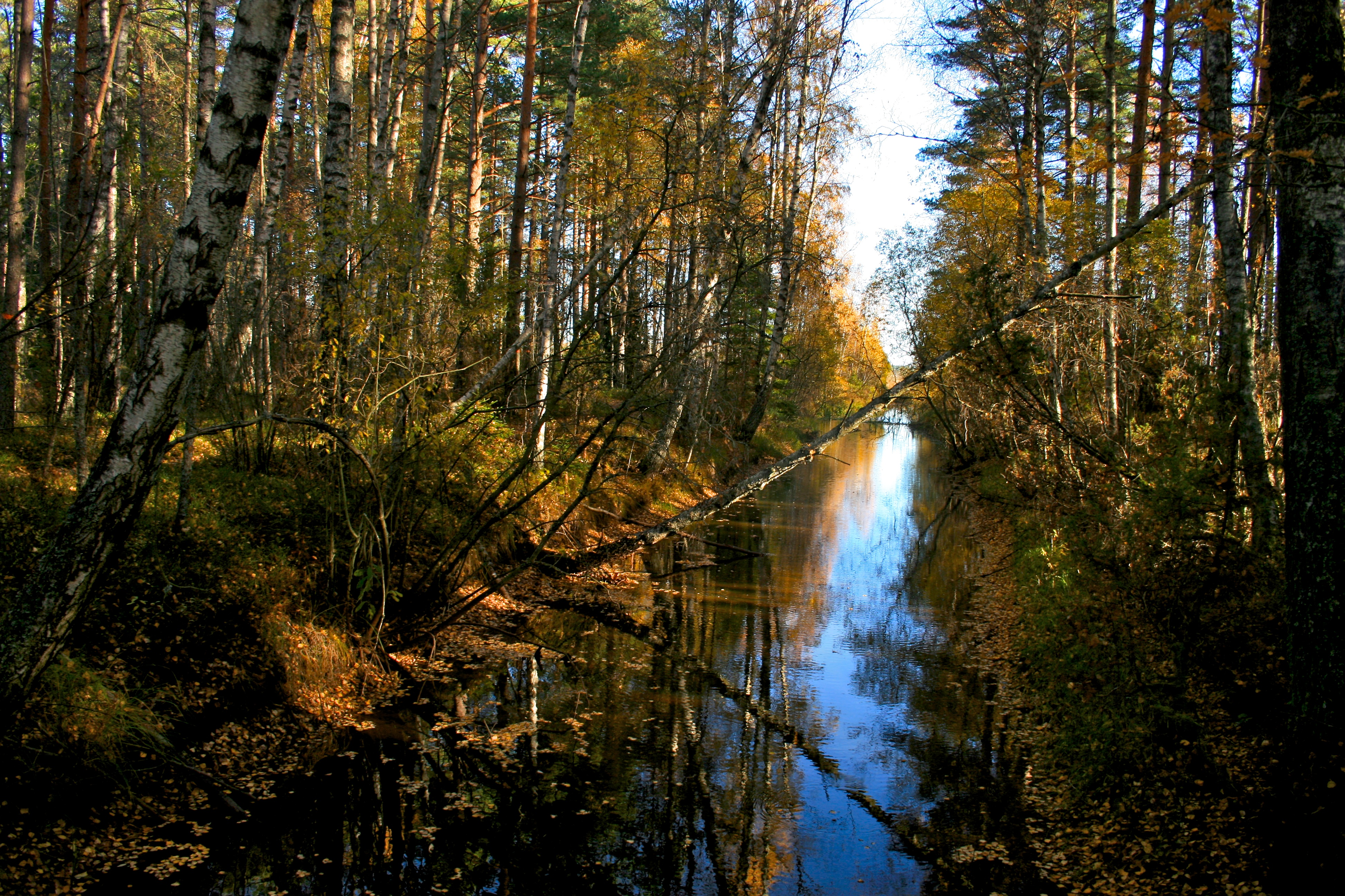 River Fläsebäcken, primary outflow of lake Kävsjön, in Store Mosse national park.